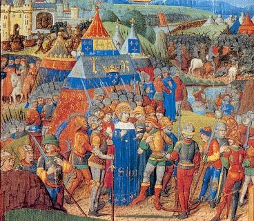 Battle of Mansourah (1249)